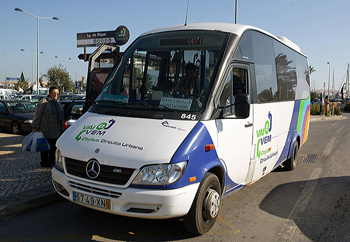 Portimão Urban BUS